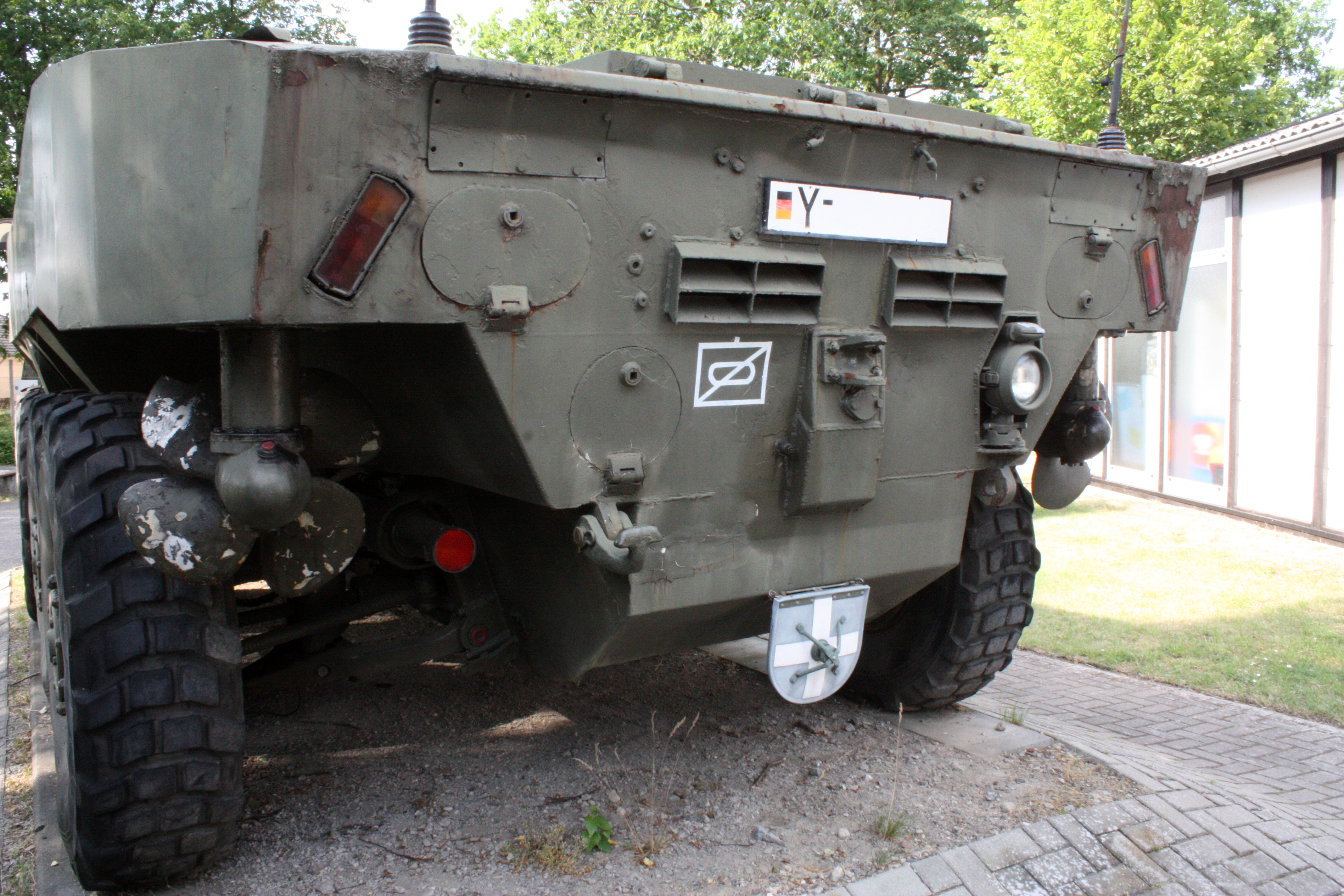 German Tank Museum